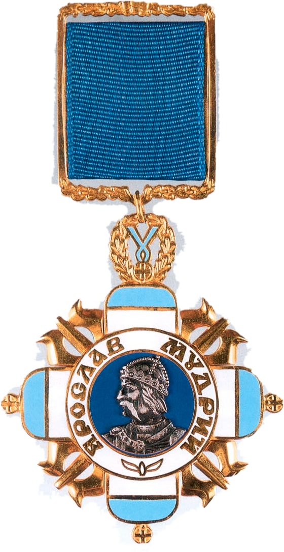 Order of the Yaroslav the Great